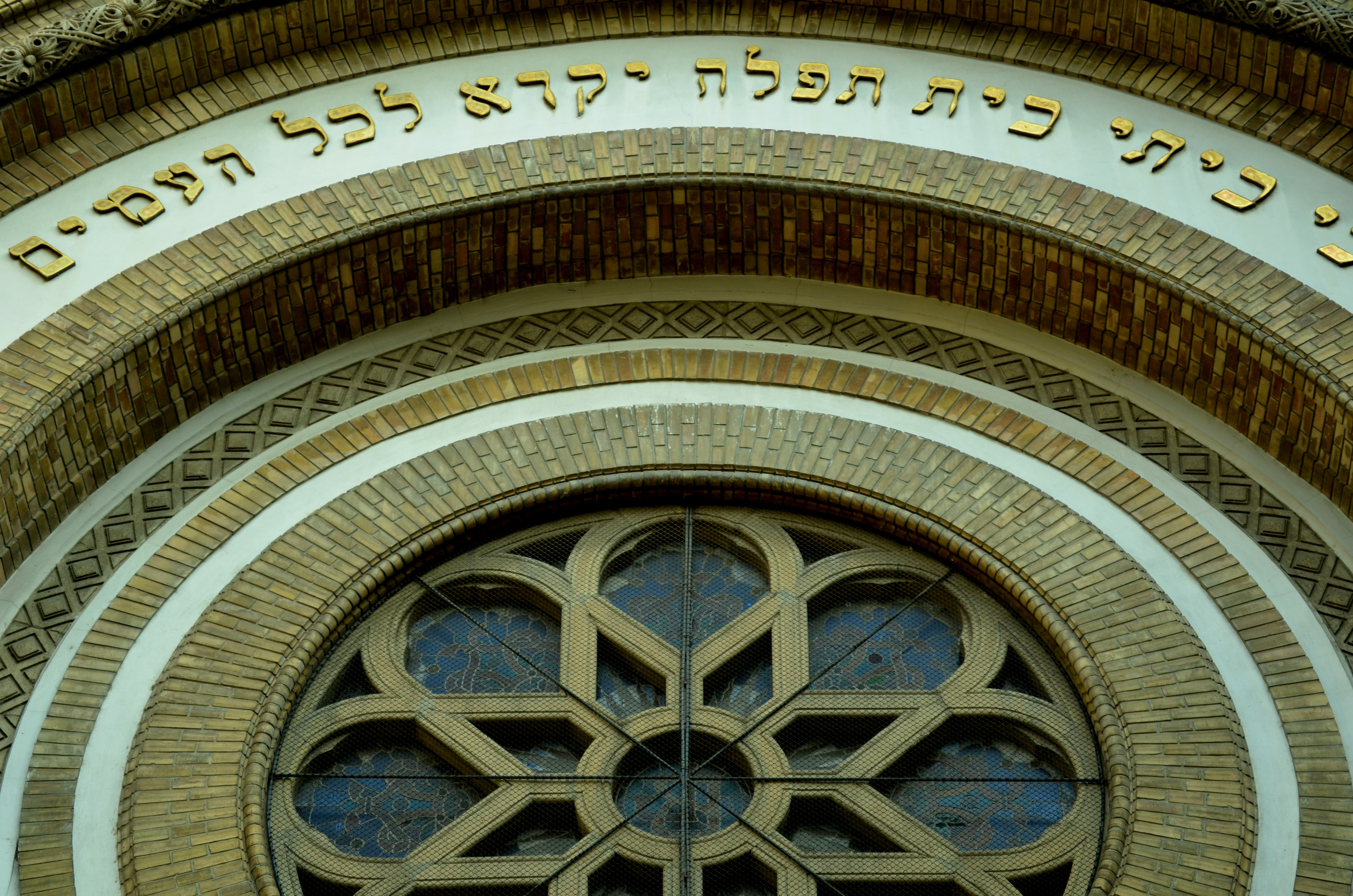 Novi Sad Synagogue is one of many cultural institutions in Novi Sad, Serbia, in the capital of Serbian the province of Vojvodina. Located on Jevrejska (Jewish) Street, in the city center, the synagogue has been recognized as a historic landmark. It served the local Neolog congregation. It was built between 1906 and 1909.